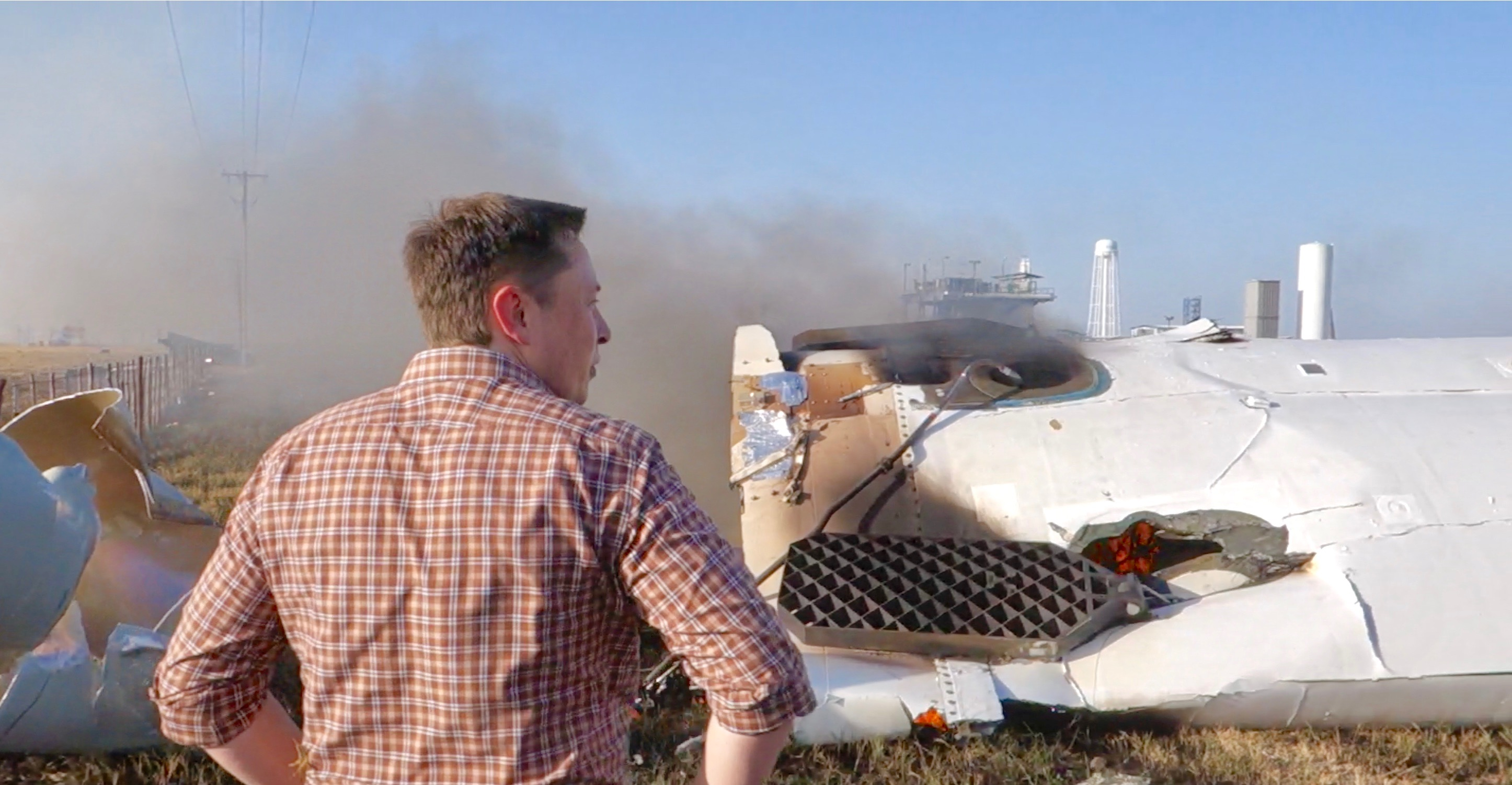 How Not to Land an Orbital Rocket Booster: the incredible SpaceX Blooper Reel just came out. On Aug 22, 2014, we were at the Texas facility and I filmed the final F9R test flight (the footage is part of the SpaceX post). We started the day with a fun DQ binger, and as we drove out to the launch site, I joked about the big bada boom to come. Not sure why. It was the first flight with three engines going, and a lot more fuel than prior flights. It arched over and something was clearly wrong. Then BOOM! I suggested to Elon that we should go out to the debris field for post-flight analysis... and artifact collecting! Someone tried to cheer Elon up with a quote about learning coming from life's failures. Elon replied: “Given the options, I prefer to learn from success.” That is the quote I am using on the placards for the wreckage remains.